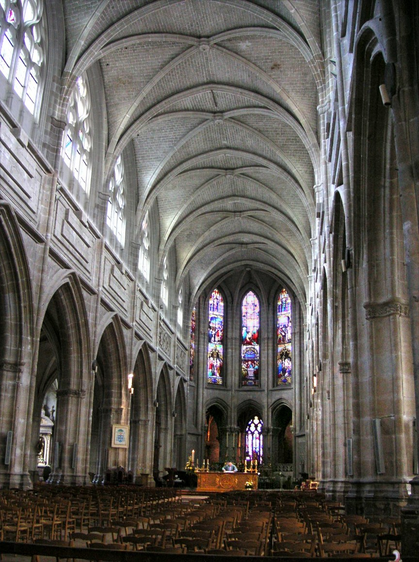 France, Blois Cathedral interior